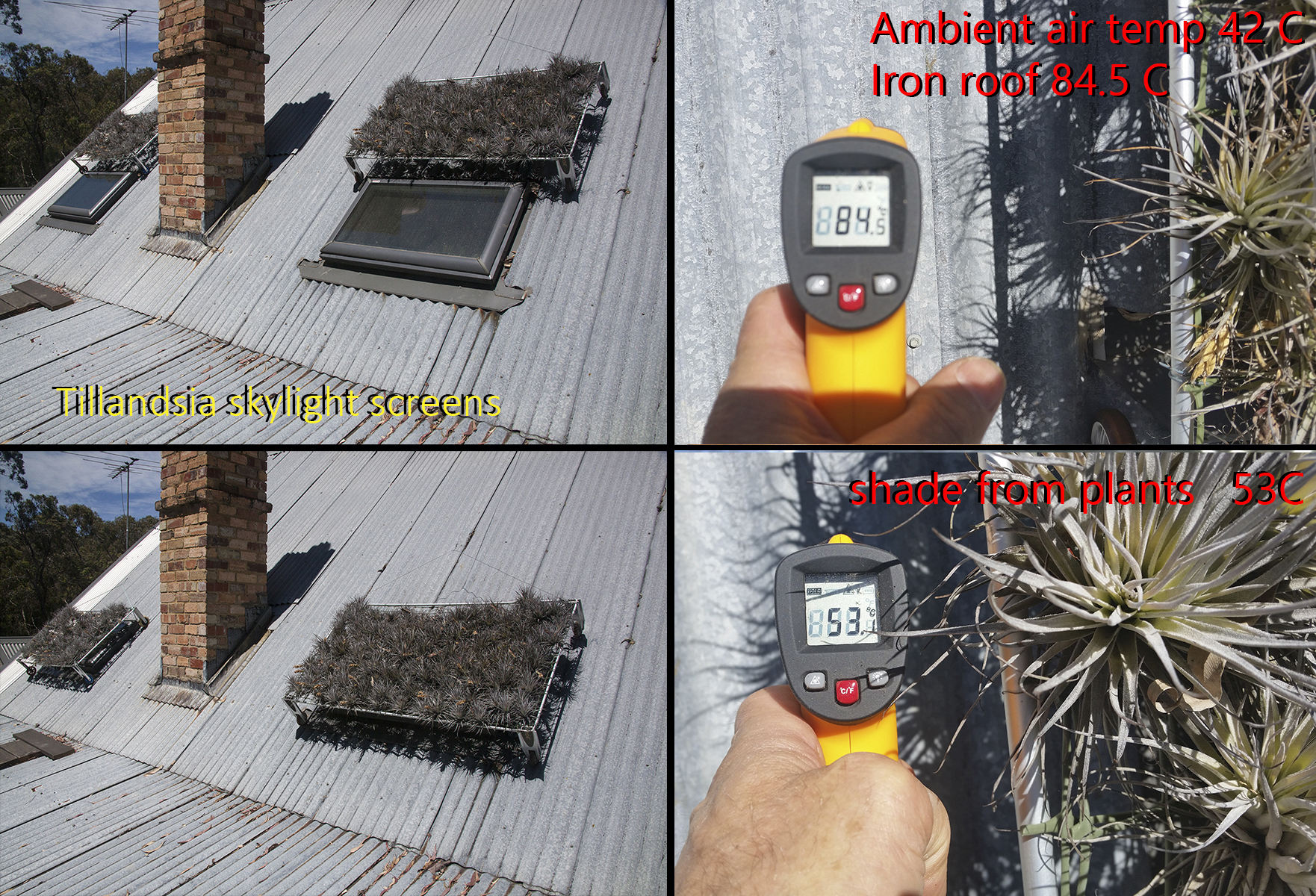 Moveable Tillandsia plant screen on galvanized iron roof with temperature reference